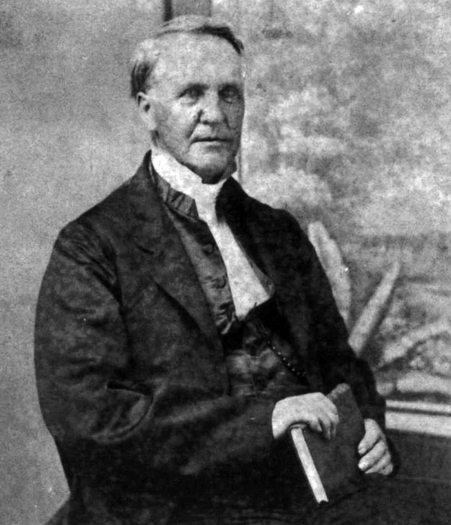 American missionary Titus Coan worked in Hilo, Hawaii from 1835 to 1881. He wrote a book detailing observations of the volcanoes there, gathered many people into his church, and built a new building.